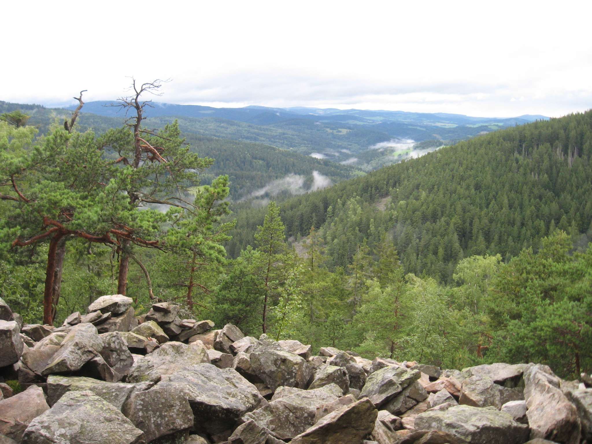 Giant Castle (Obří hrad), ruins of Celtic fortified settlement on the hill Valy above the hamlet of Popelná in the Bohemian Forest (Šumava). View to the west.